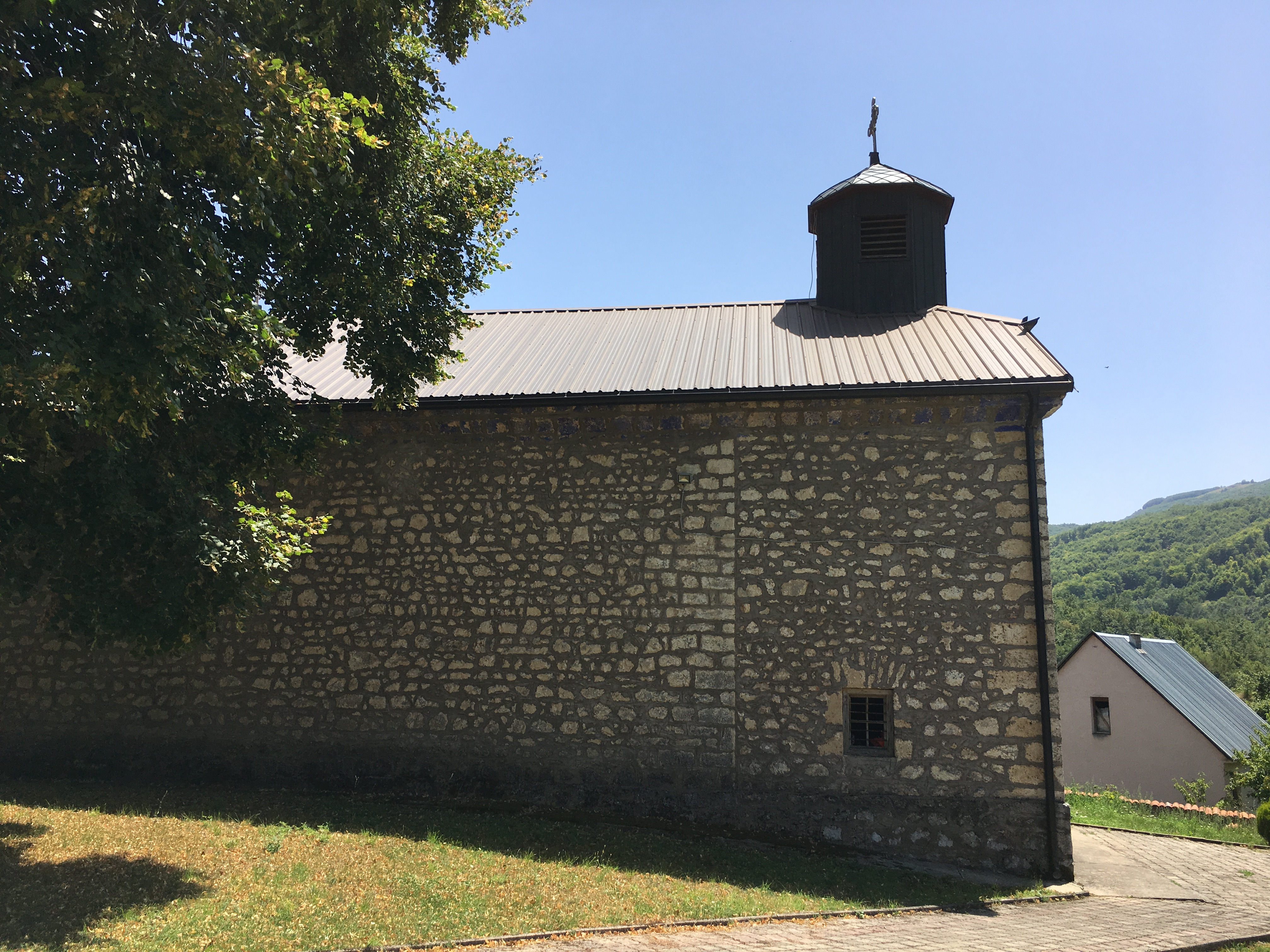 View of St. Athanasius Church in the village Višni